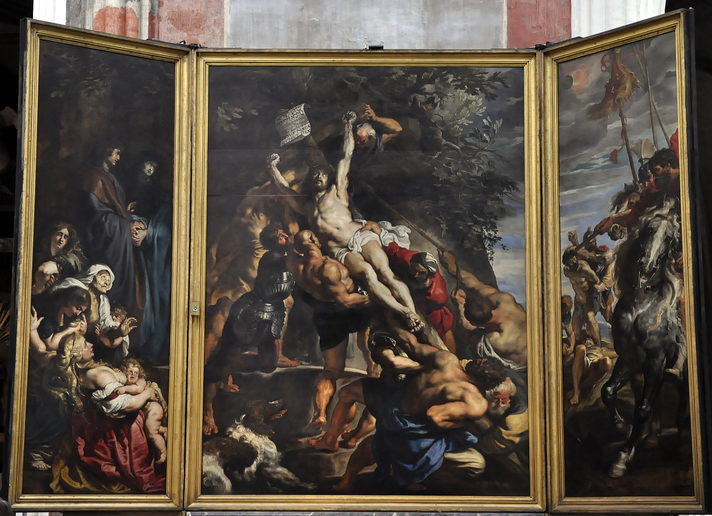 The Elevation of the Cross (Rubens)